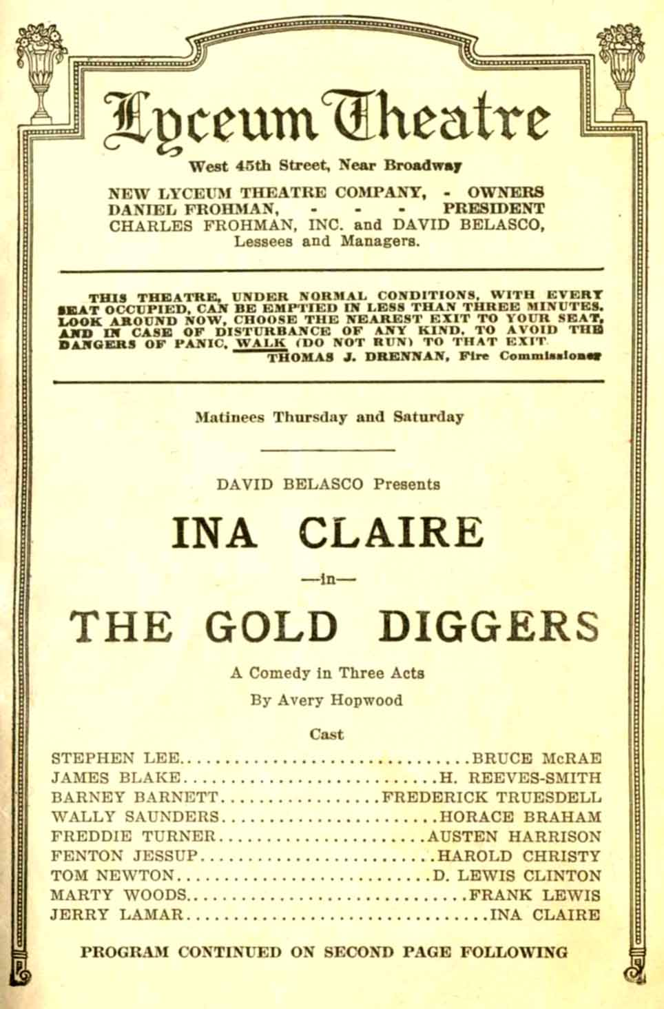 Page from the program for the 1919 Broadway production of The Gold Diggers by Avery Hopwood.